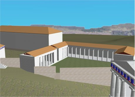 Reconstruction of the Sanctuary of Artemis Brauronia on the Acropolis of Athens by Kronoskaf - Snapshot of the real time rendering of the prototype. Courtesy of